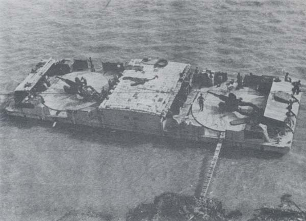 Riverine artillery battery in Vietnam, U.S. 105mm howitzers emplaced on moored barges